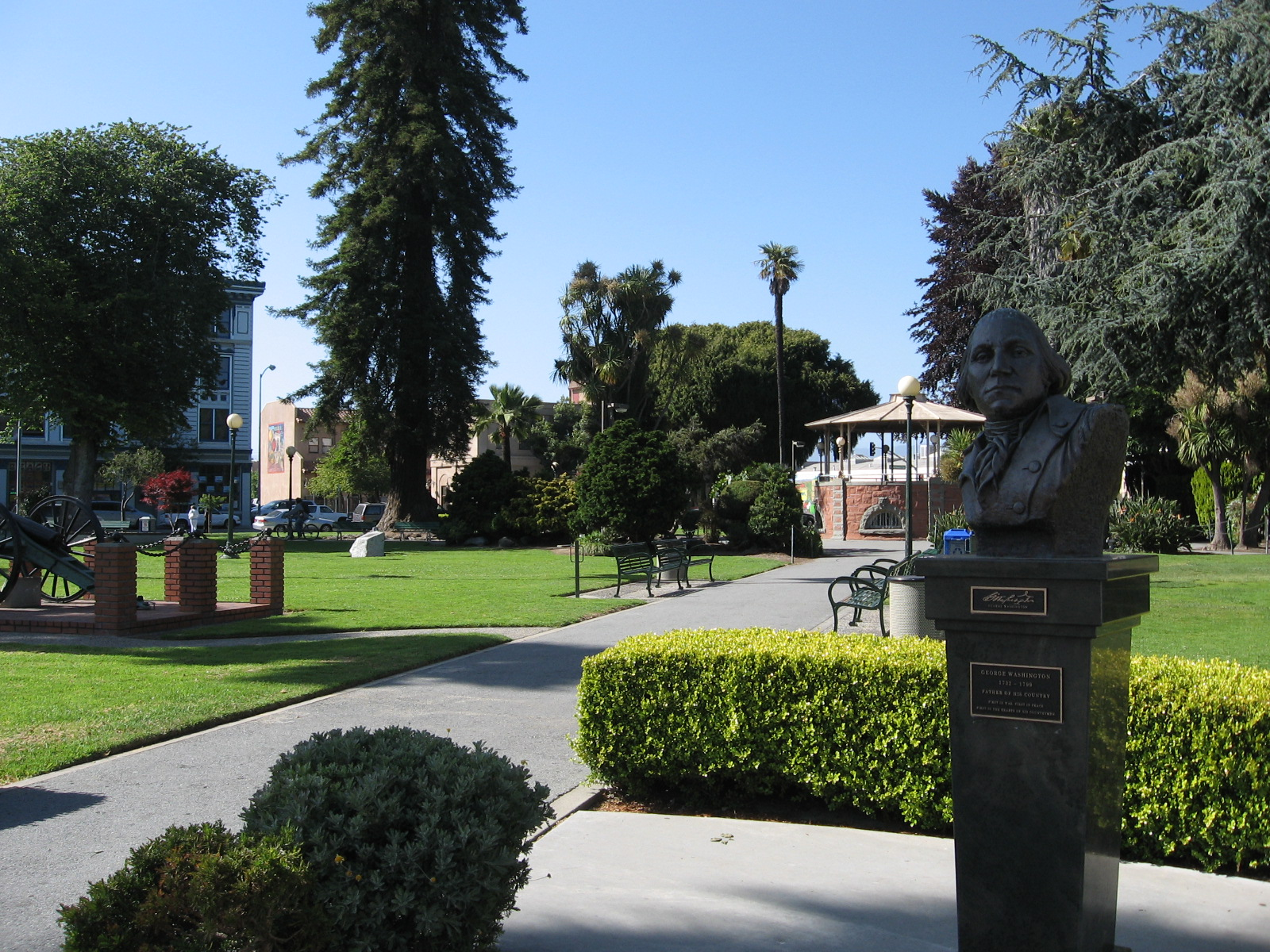 The Watsonville Plaza park - in the downtown area of Watsonville, Northern California.